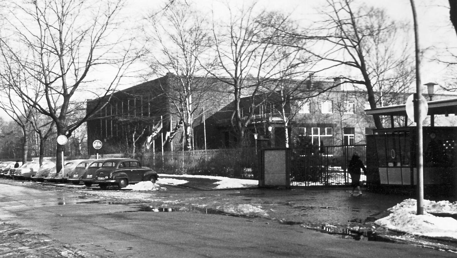 Former WFV-Heim in Duisburg-Wedau, today Sportschule Wedau (sportschool Wedau) of the football association of the Lower Rhine region (german: Fußballverband Niederrhein).